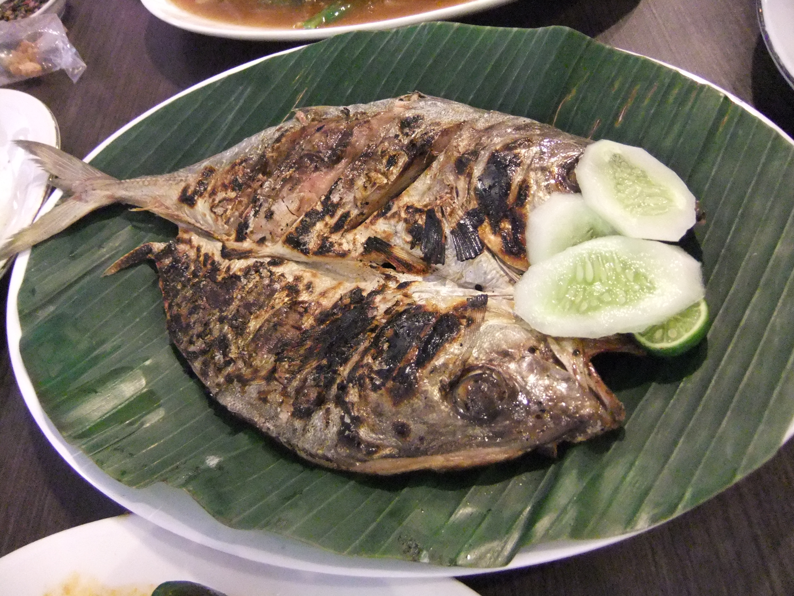 Grilled fish, Jakarta, Indonesia